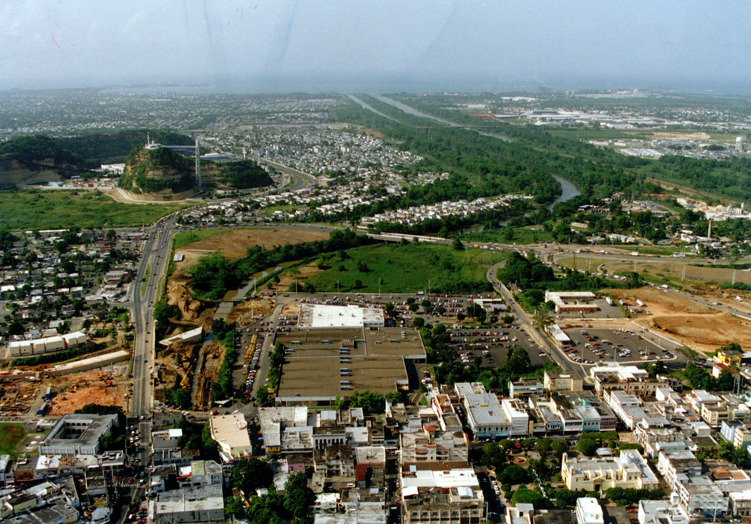 Aerial view of Bayamón, Puerto Rico. The U.S. Army Corps of Engineers has constructed a flood control project on the Rio de Bayamón through the city. View is to the north towards the Atlantic Ocean. The Canton Mall is visible in the center of the picture. Coordinates: 18°24′2.41″N 66°9′26.54″W / 18.4006694°N 66.1573722°W